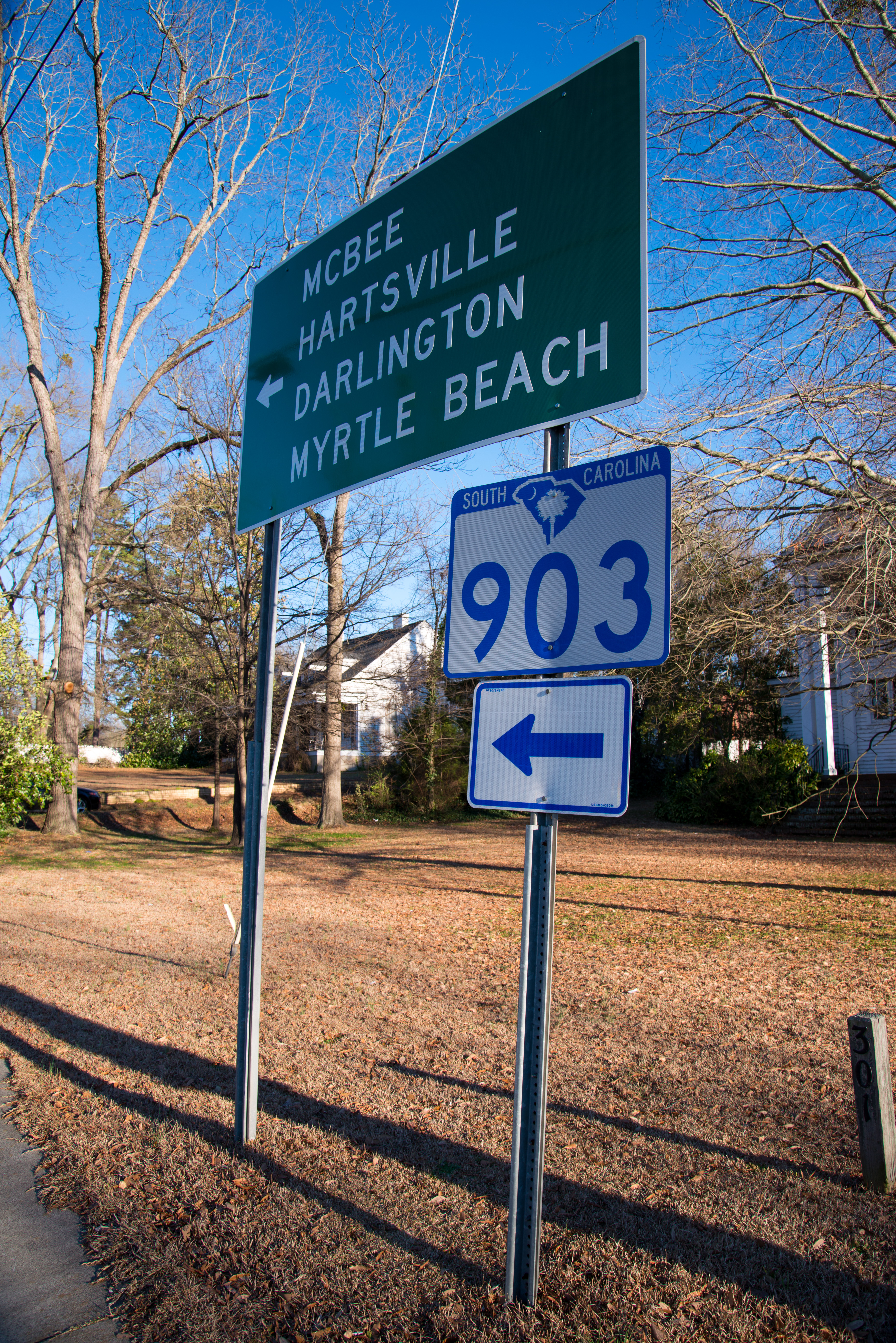 At the intersection of Market Street and Chesterfield Avenue, in Lancaster, South Carolina. Listed on the green sign is all the cities South Carolina Highway 903 head towards too.